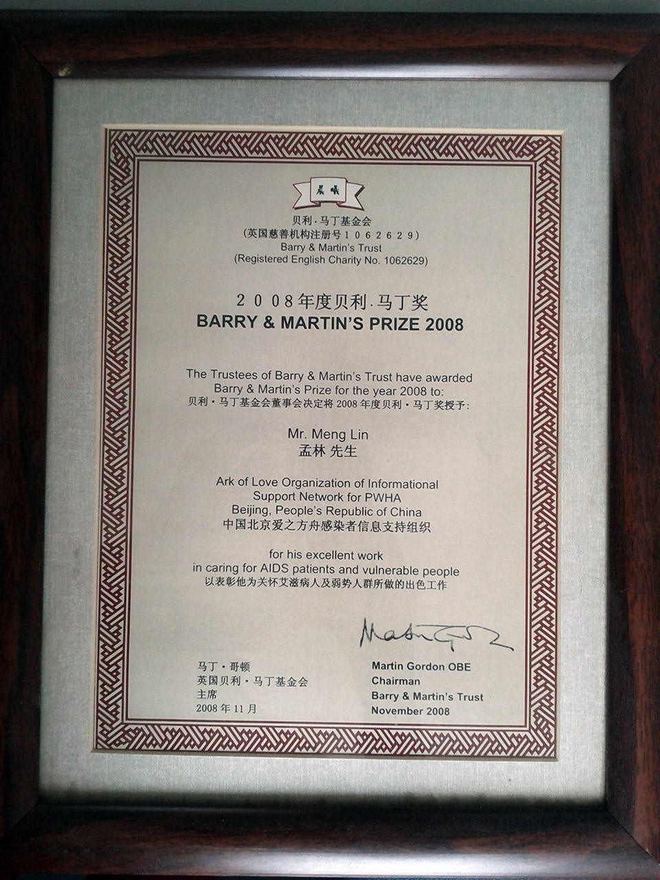 Martin